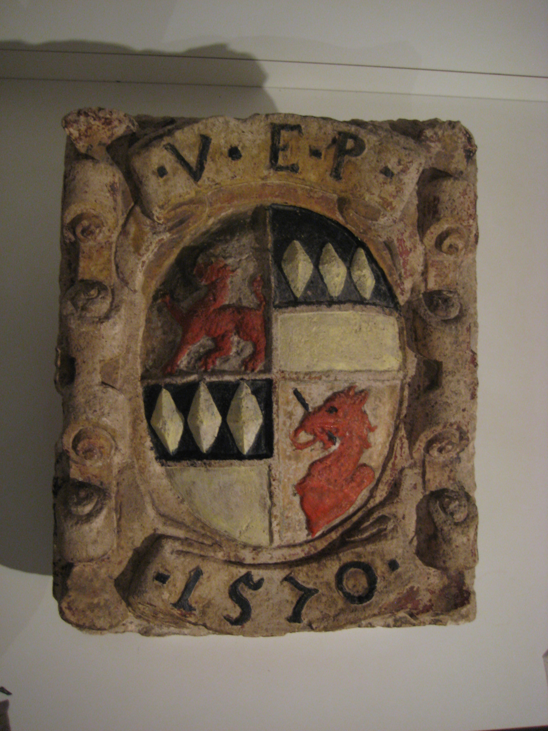 Museum in Veste Oberhaus, Passau